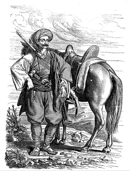 Harambaša was a senior commander of a hajduk band from Dalmatia in 19 century. The word Harambaša derived from Turkish haramibaşı (bandit leader; harami, "Bandit" + baş, "Head" - Commander of the Bandits)